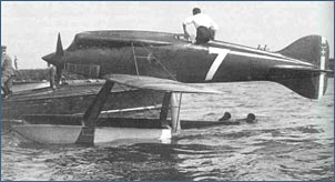 Italian Macchi M.52 racing floatplane